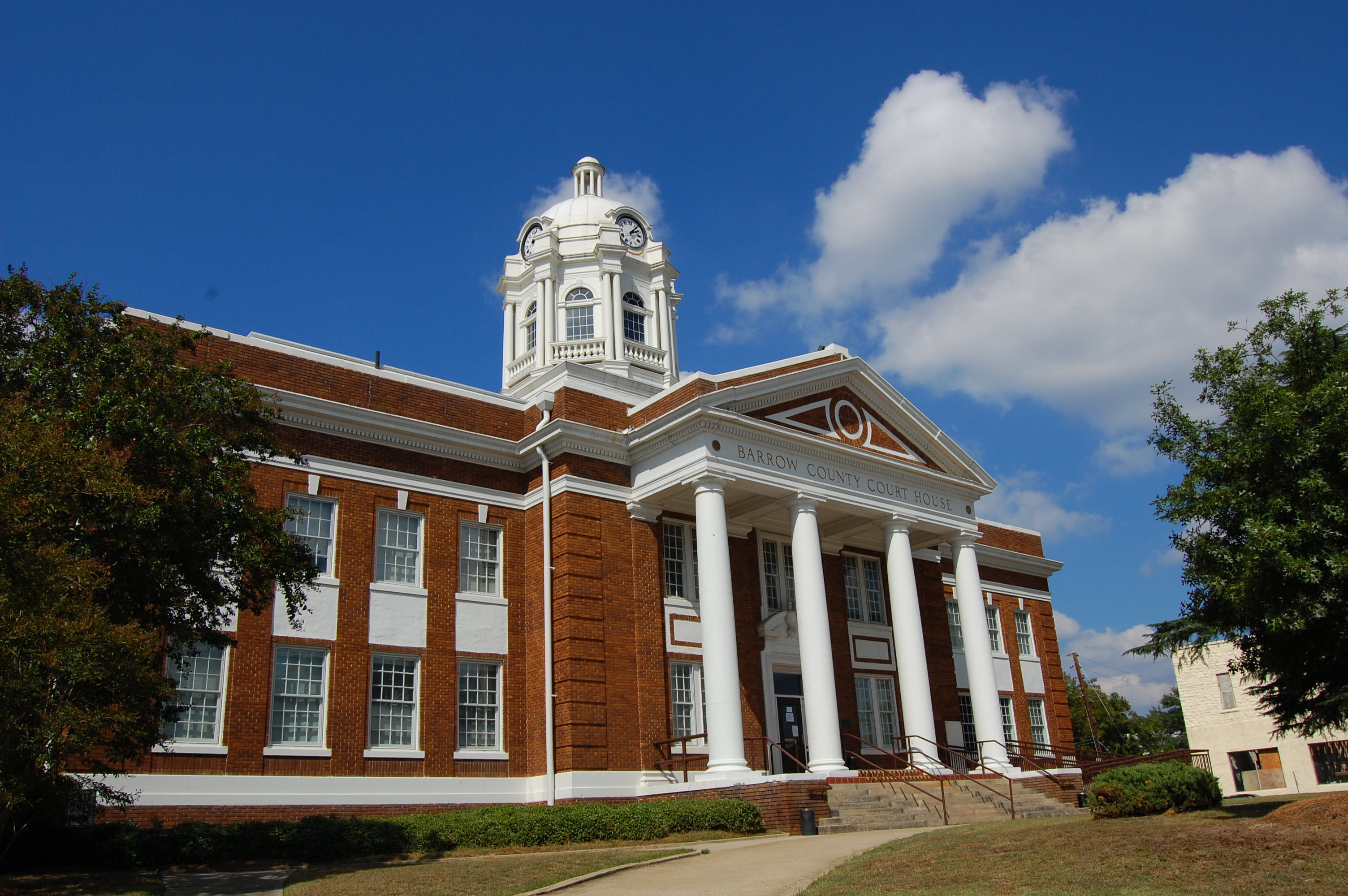 Barrow County Court House. Winder, GA USA